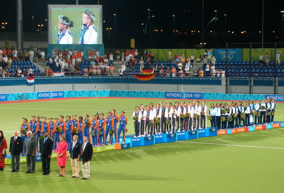 Medal Ceremony for Hockey Womens at Athens 2004